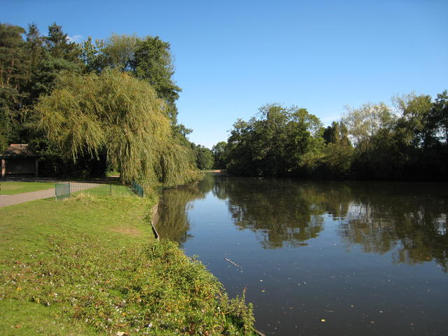 Brueton Park The lake in the park to the south of Solihull Town Centre.